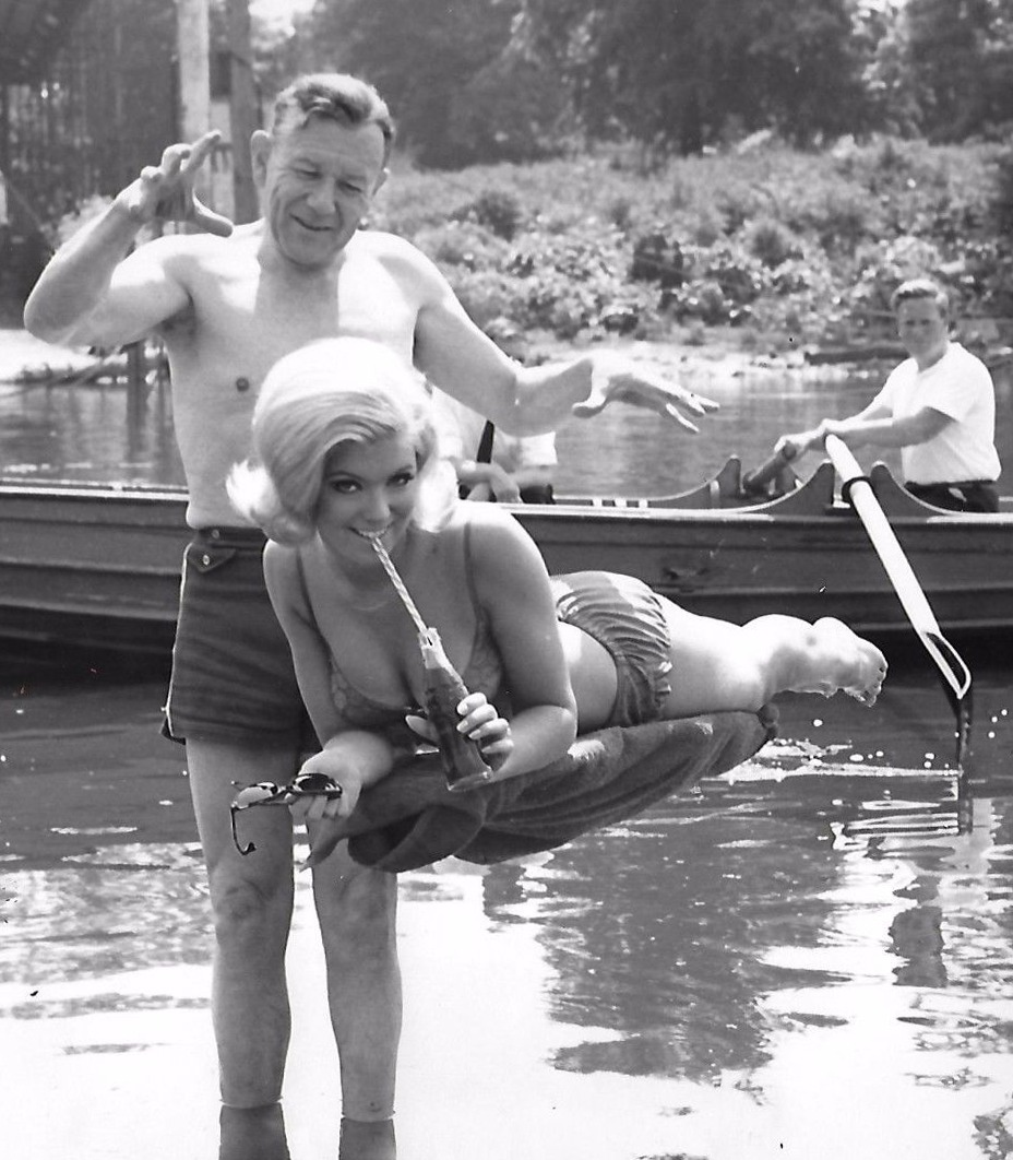 1966 Press Photo Magician Robert Harbin Levitates Actress Marvyn Parkes 7516